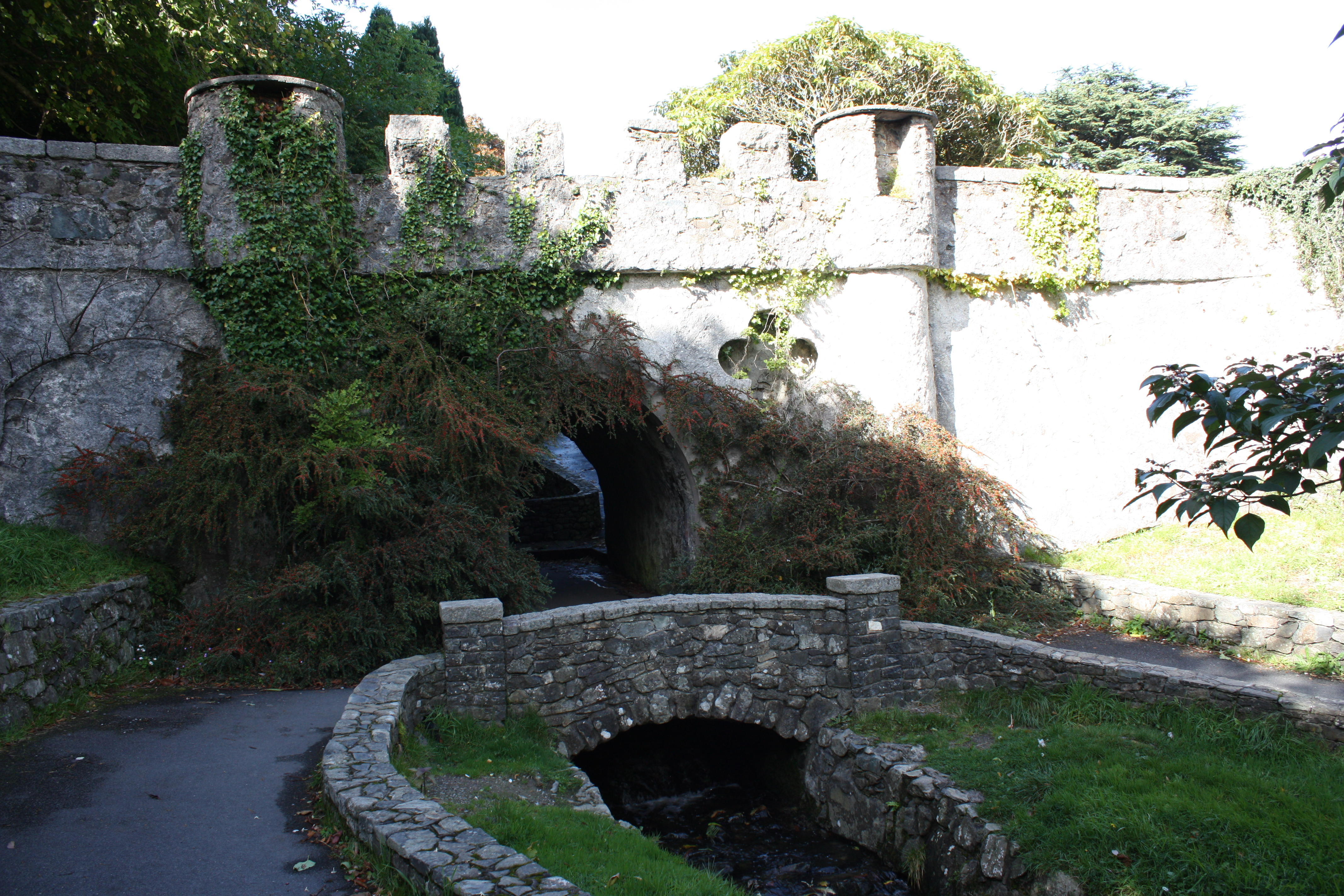 Tollymore Forest Park, Bryansford, County Down, Northern Ireland, September 2010